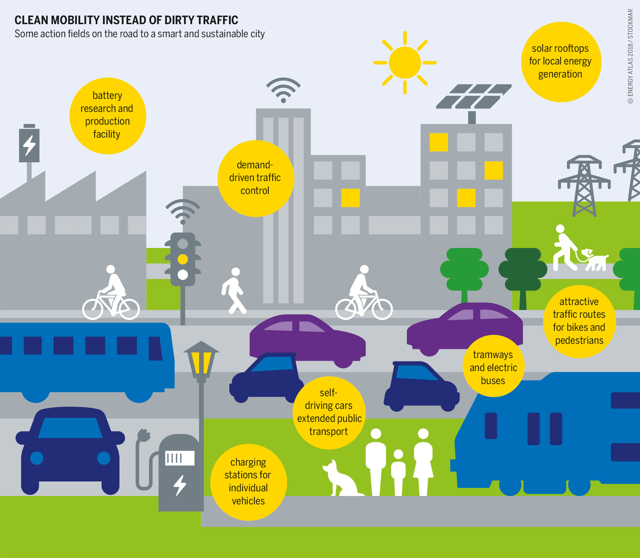 Clean mobility instead of dirty traffic